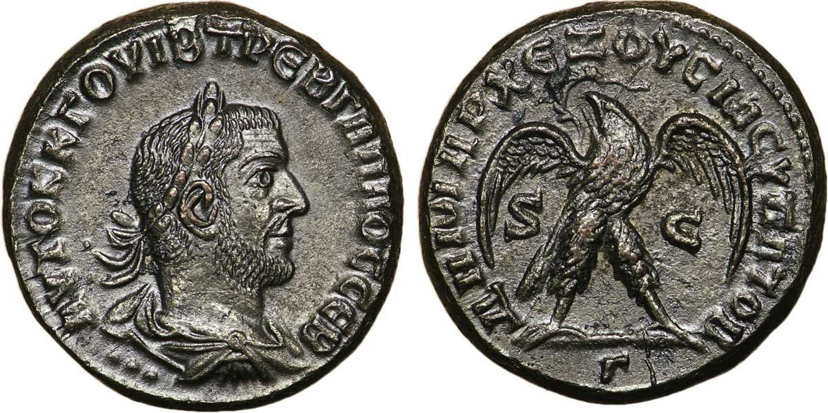 Trébonien Galle